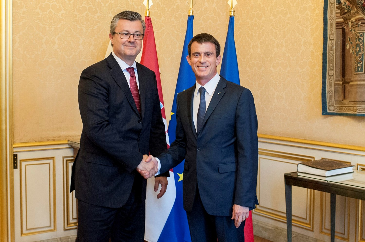 Croatian Prime Minister Tihomir Oreskovic with French Prime Minister Manuel Valls